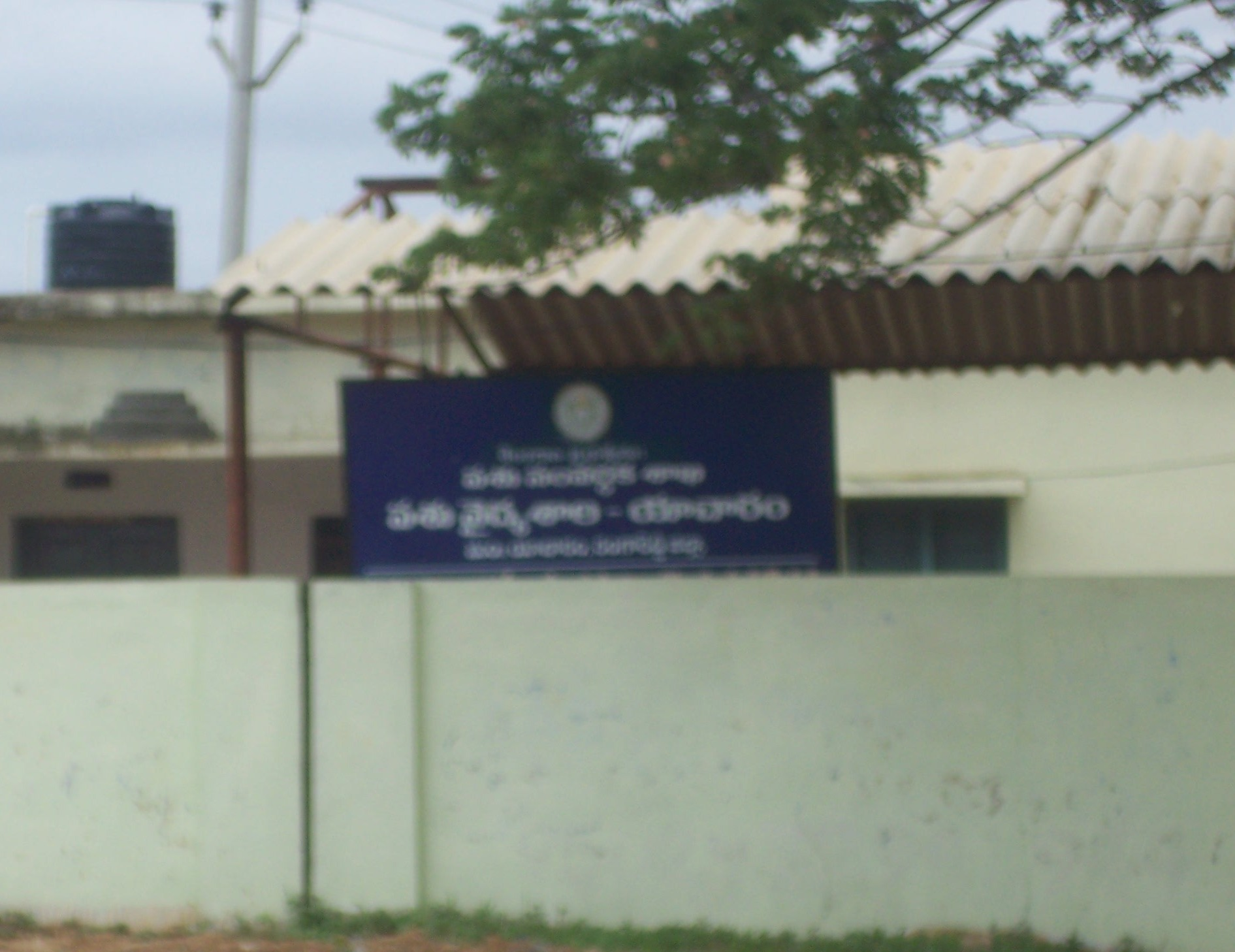 Veternary hospital